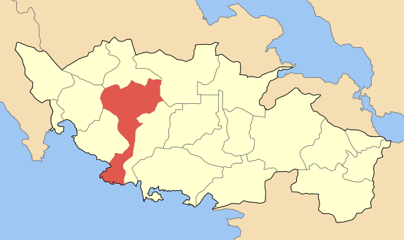 Locator map of Levadeon municipality (Δήμος Λεβαδαίων) at Voiotias perfecture, Greece.